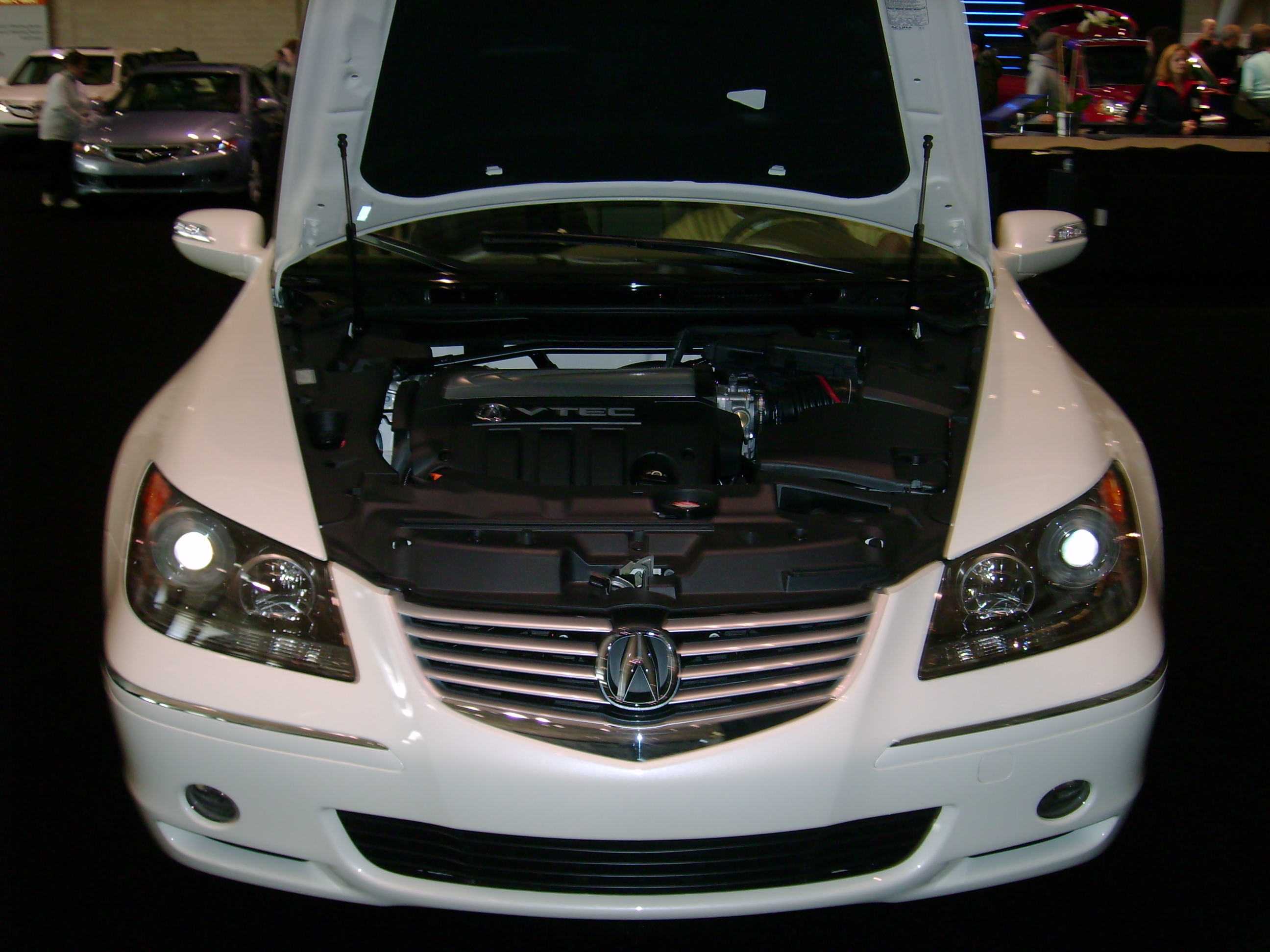 2008 Acura RL photographed in USA.